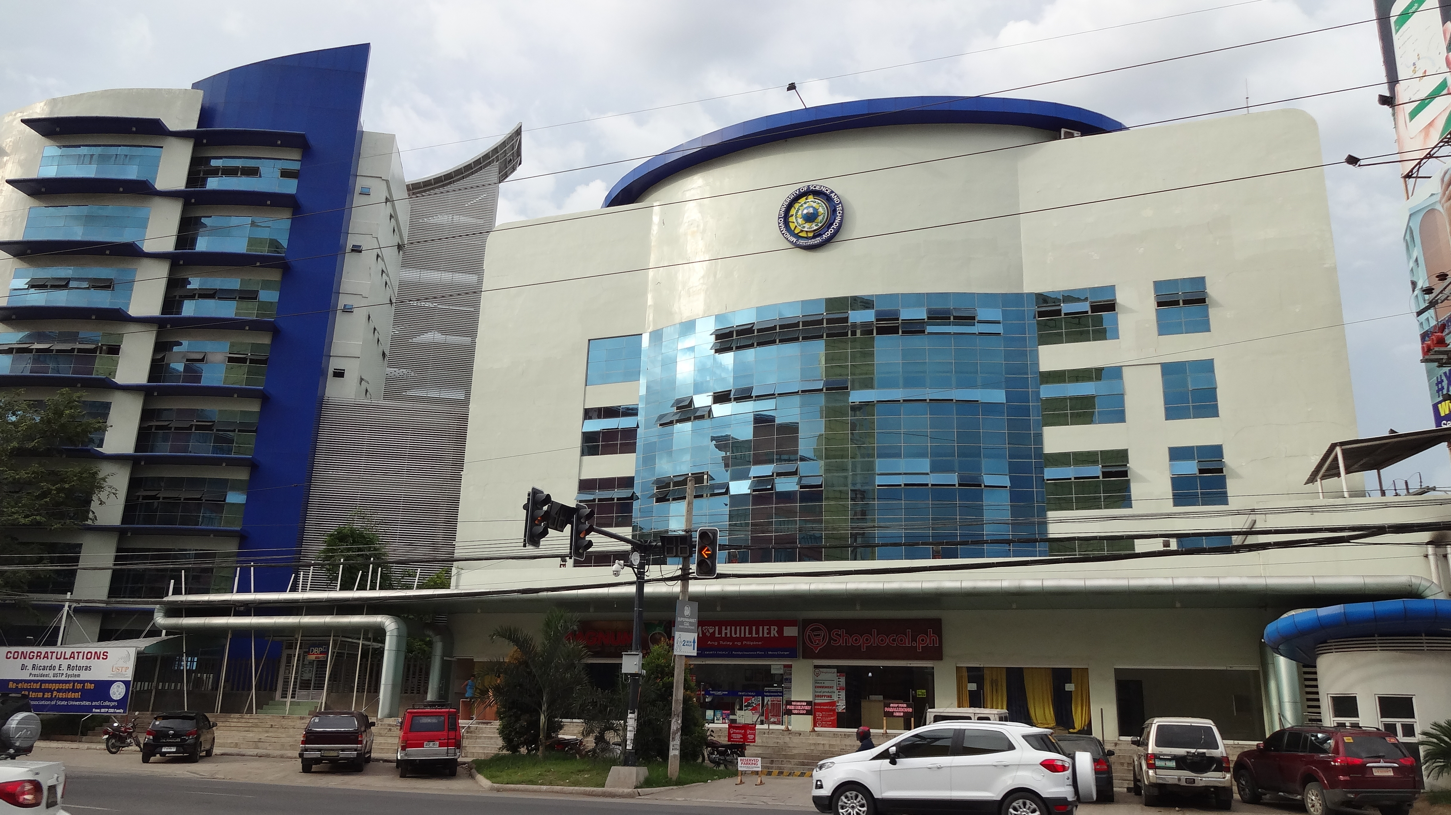 This is my own work. A view of University of of Science and Technology of Southern Philippines Main Campus (Formerly Mindanao University of Science and Technology) located at the CDO-Iligan Road in front of Lim Ket Kai Center in CDO.